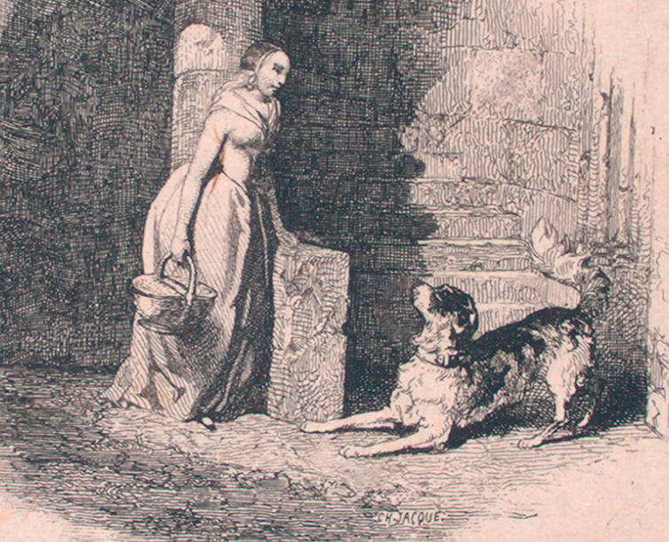 Sketch of a dog in a position indicating hesitation, cropped from File:(L'hésitation.) (NYPL b14923832-1225608).tiff.